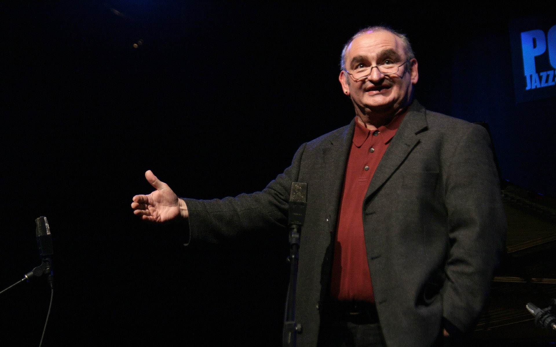 Austrian Cabaret Award (Porgy & Bess, Vienna).